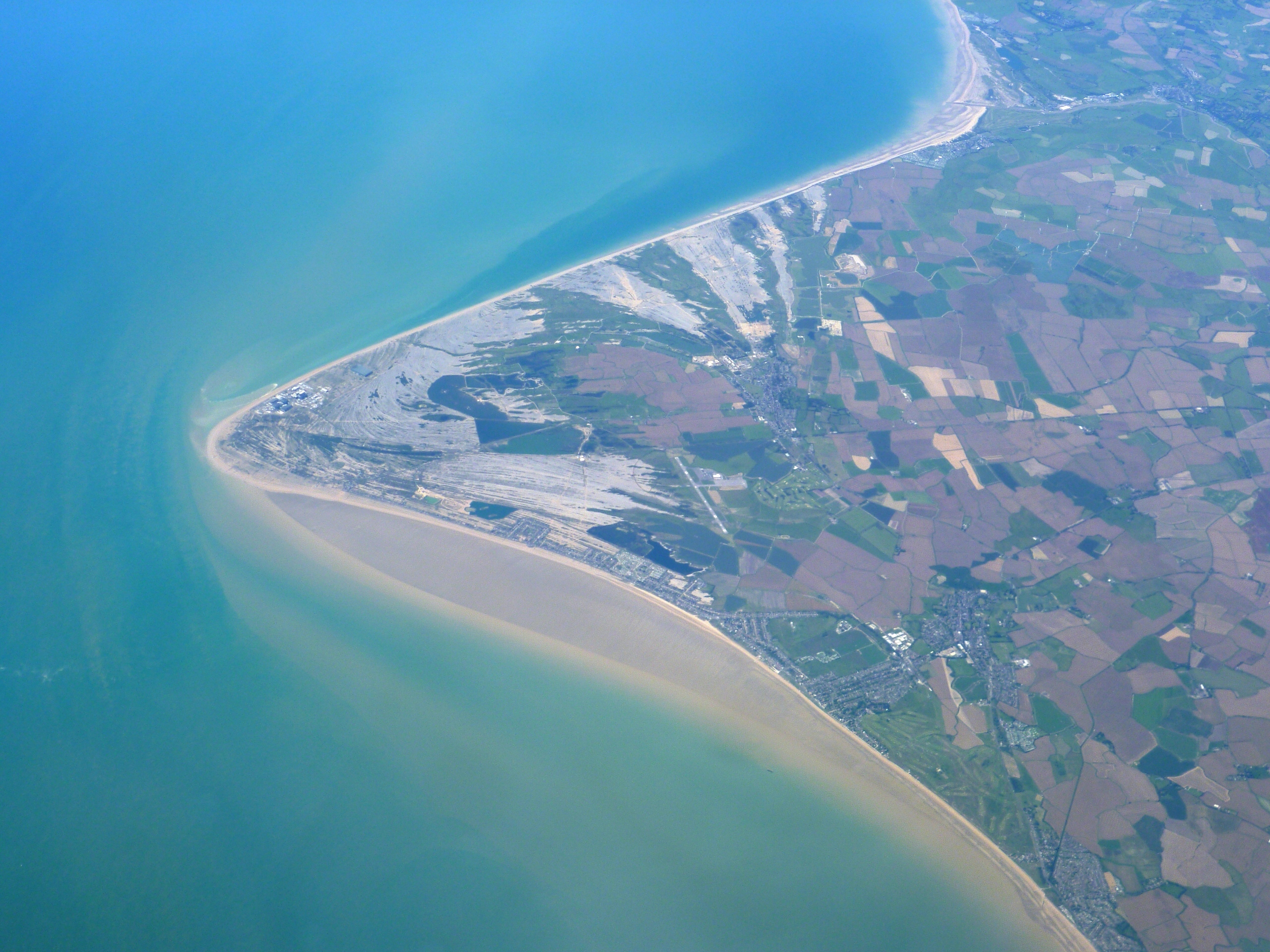 Aerial view of Dungeness. Lydd Airport can be seen more or less in the centre of the photograph with the town beyond, slightly to the right.